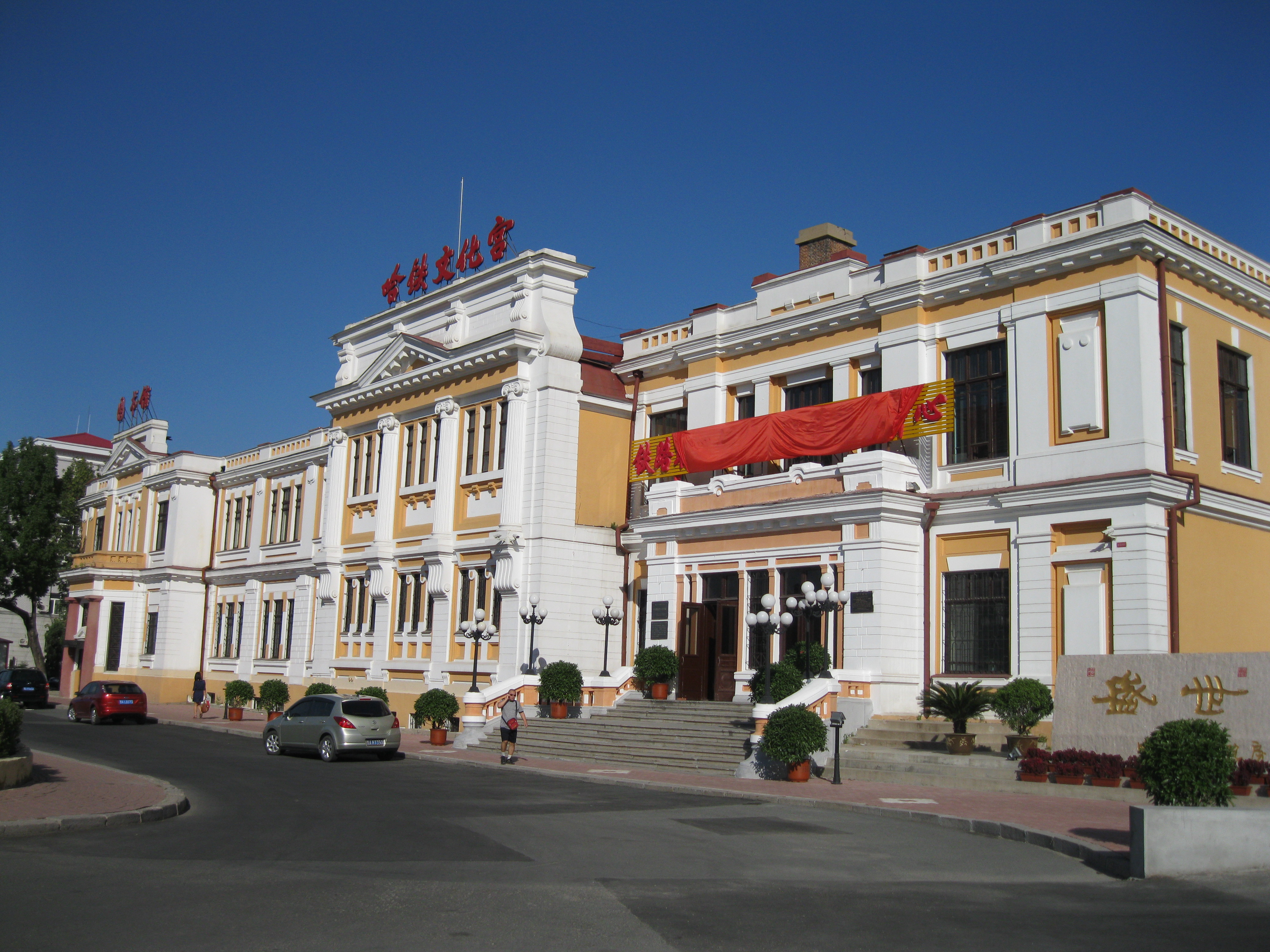 Zdanie Zheleznodorozhnogo sobraniya KVZhD